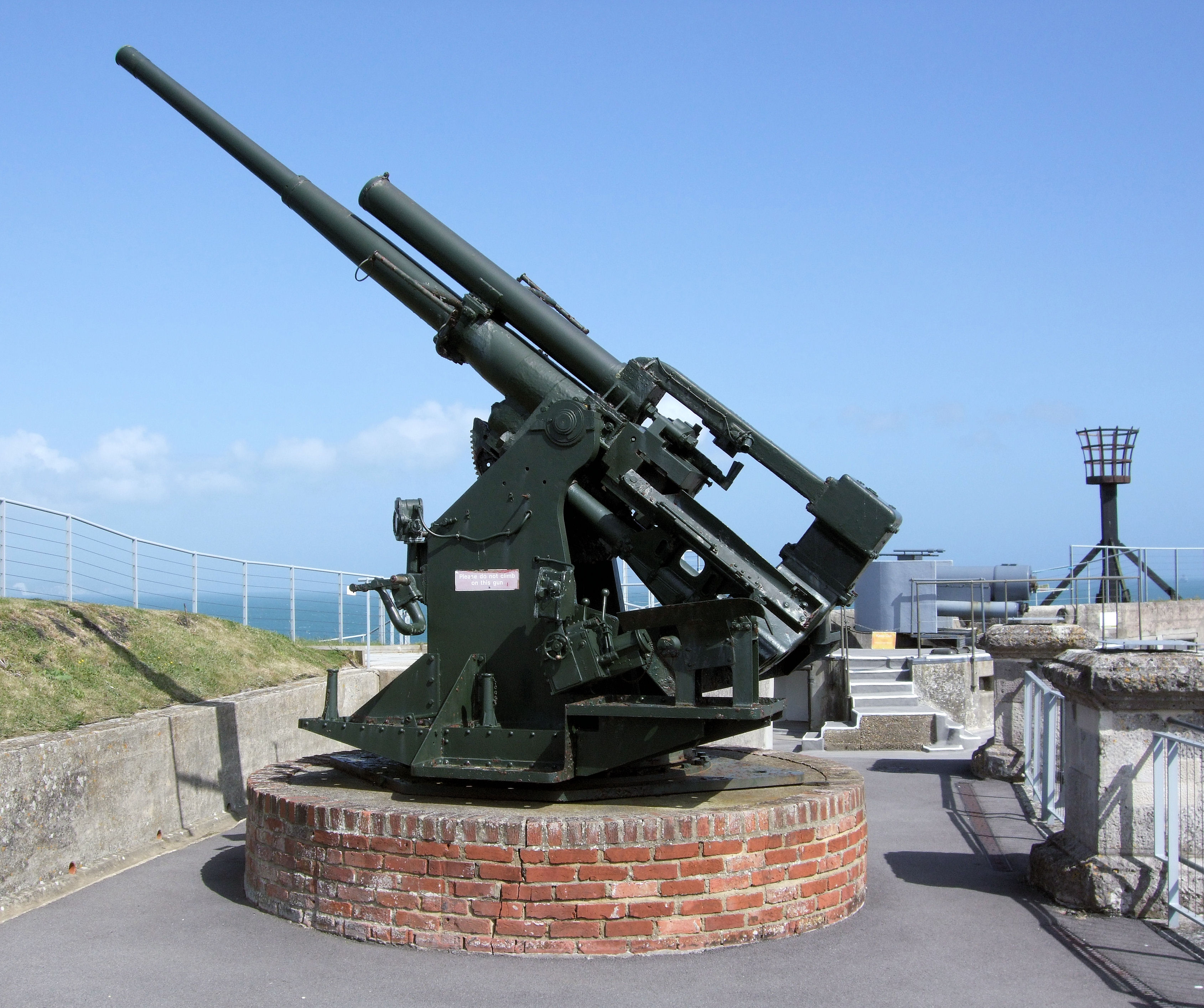 The 3.7-Inch QF AA was Britain's primary heavy anti-aircraft gun during World War II, the equivalent of the German 88 mm FlaK with a slightly larger calibre of 94 mm. It remained in use after the war until AA guns were replaced by guided missiles in the late 1950s.